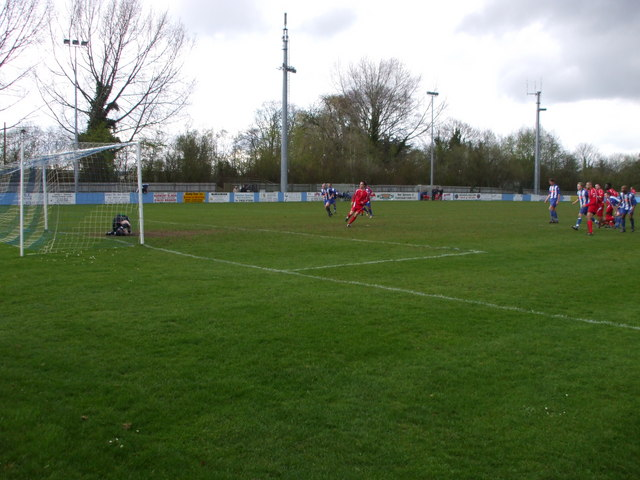 Riverside Park, home of Thatcham Town F.C.. Thatcham in blue are playing Bracknell Town in red and white stripes.